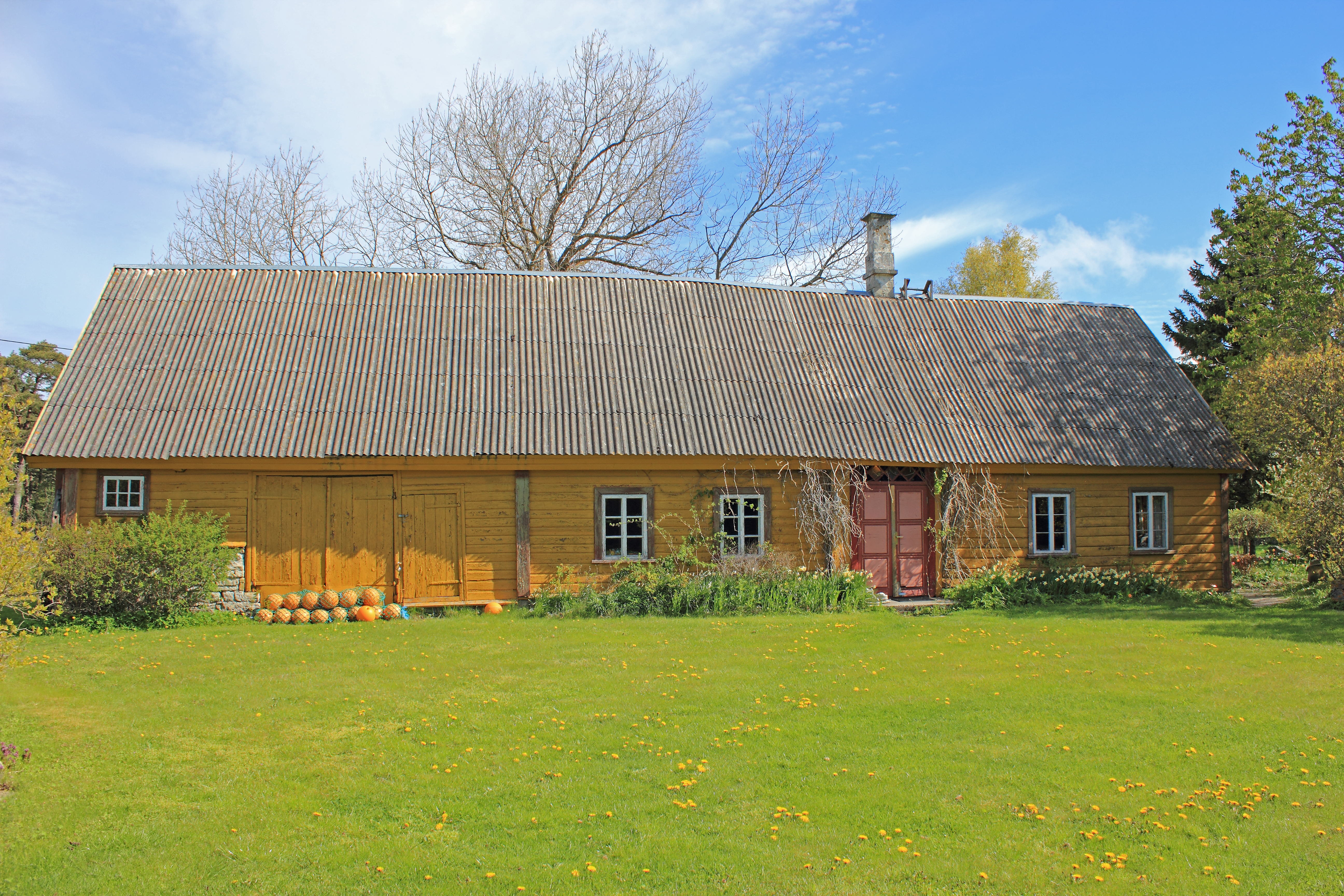 Old farmhouse on Vilsandi island in Estonia.